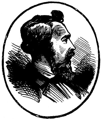 John Church, publican of the Rising Sun pub, Richmond, who was falsely implicated by Kate Webster in the murder of Julia Martha Thomas